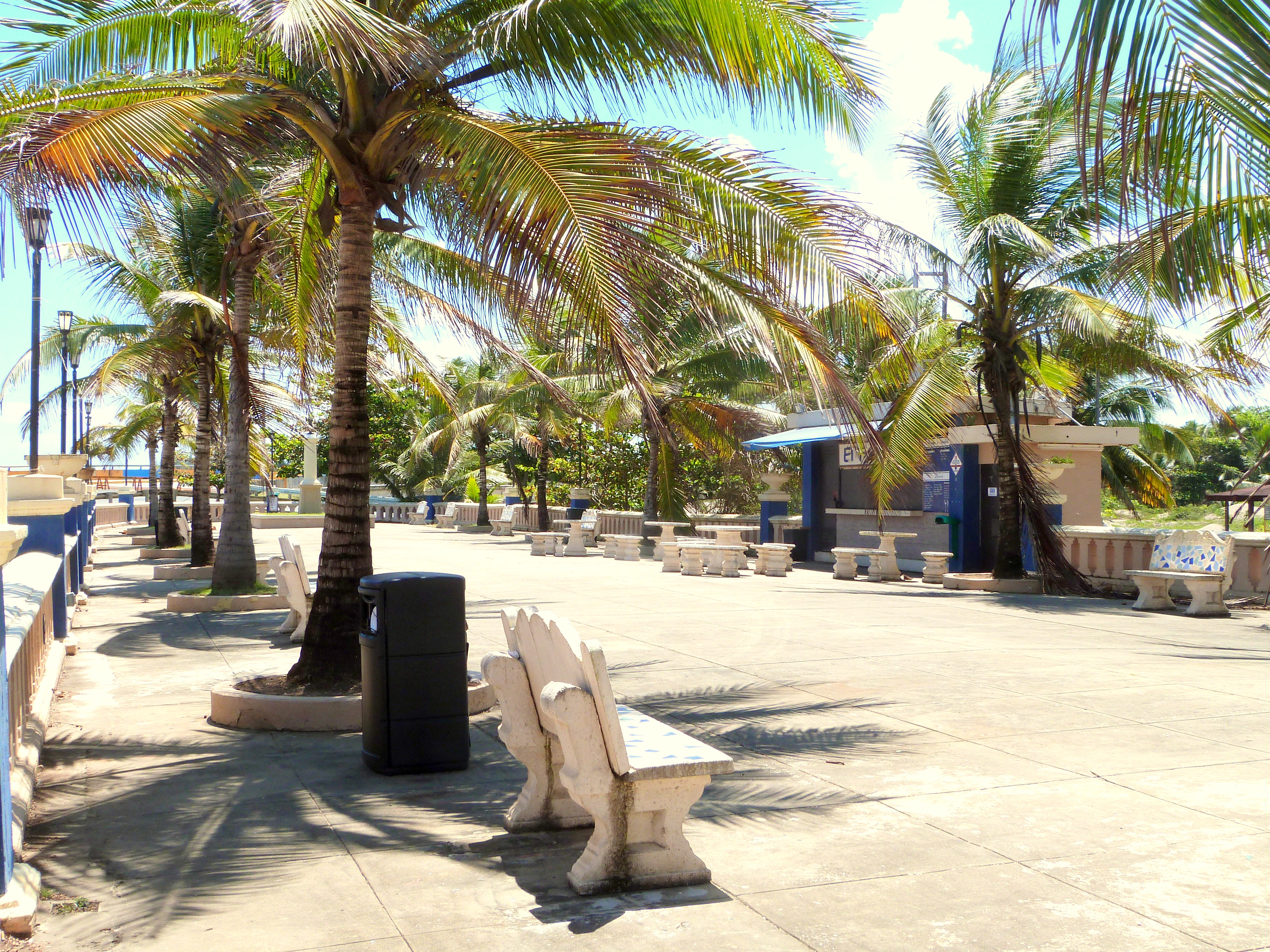 The historic Paseo las Damas (also Paseo Víctor Rojas, built 1881, reconstructed 1899), located at the junction of Calle Gonzalo Marín and Avenida José de Diego in Arecibo, Puerto Rico, is listed on the U.S. National Register of Historic Places. It sits on the site of the eighteenth-century Fuerte San Miguel, and continues to be called "El Fuerte" in the twenty-first century.